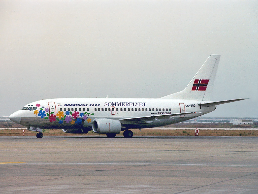 Braathens SAFE Boeing 737-505 LN-BRD "Sommerflyet" (the summer aircraft) at Faro Airport